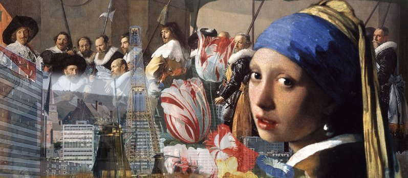 photomontage, enhanced copy of hollande04.jpg